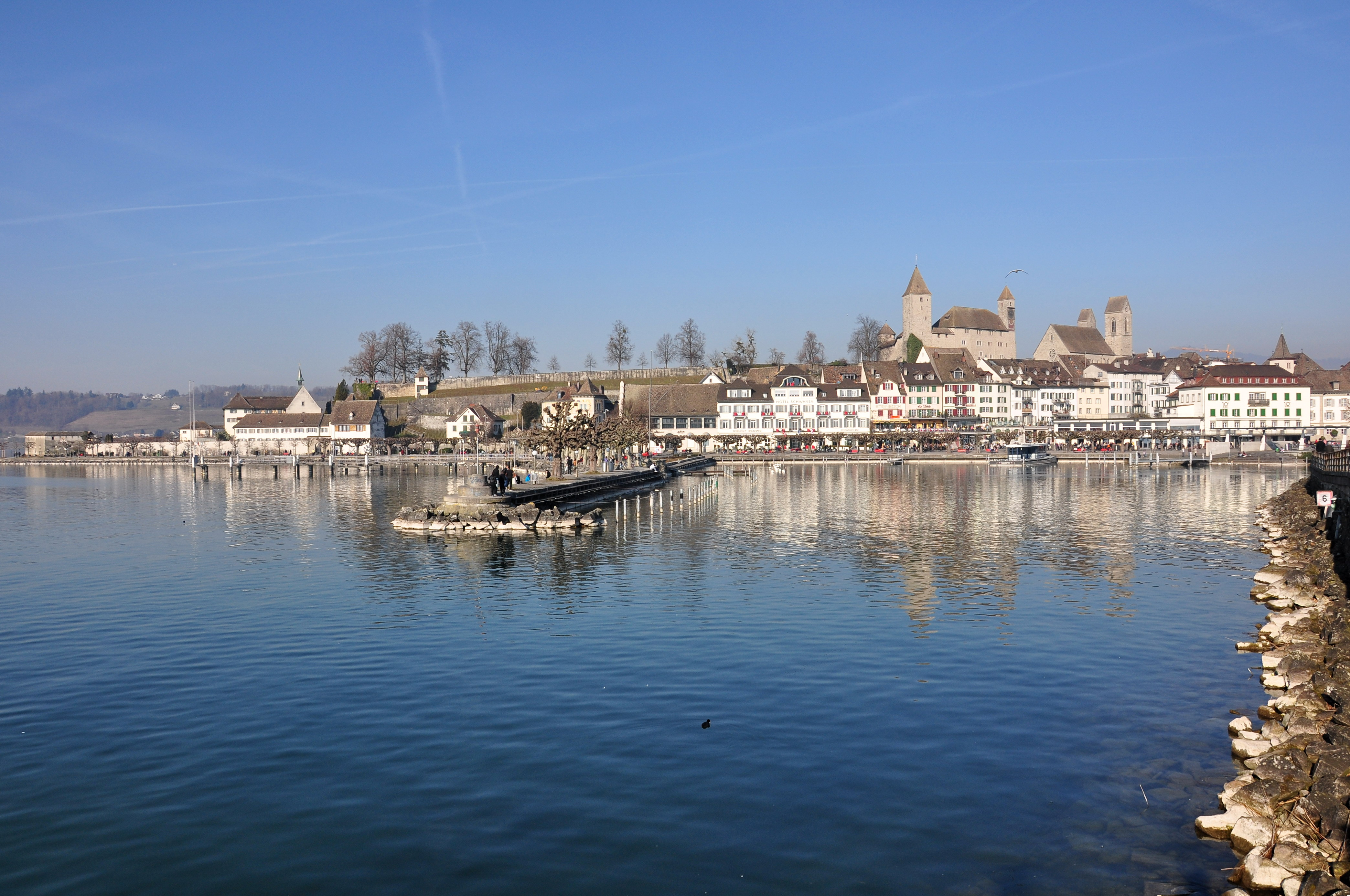 Rapperswil Altstadt, as seen from Seedamm, Kapuzinerkloster (Capuchin monastery) to the left, Fischmarktplatz to the right, Lindenhof, Rapperswil castle and Stadtpfarrkirche (St. John's Church) in the background.